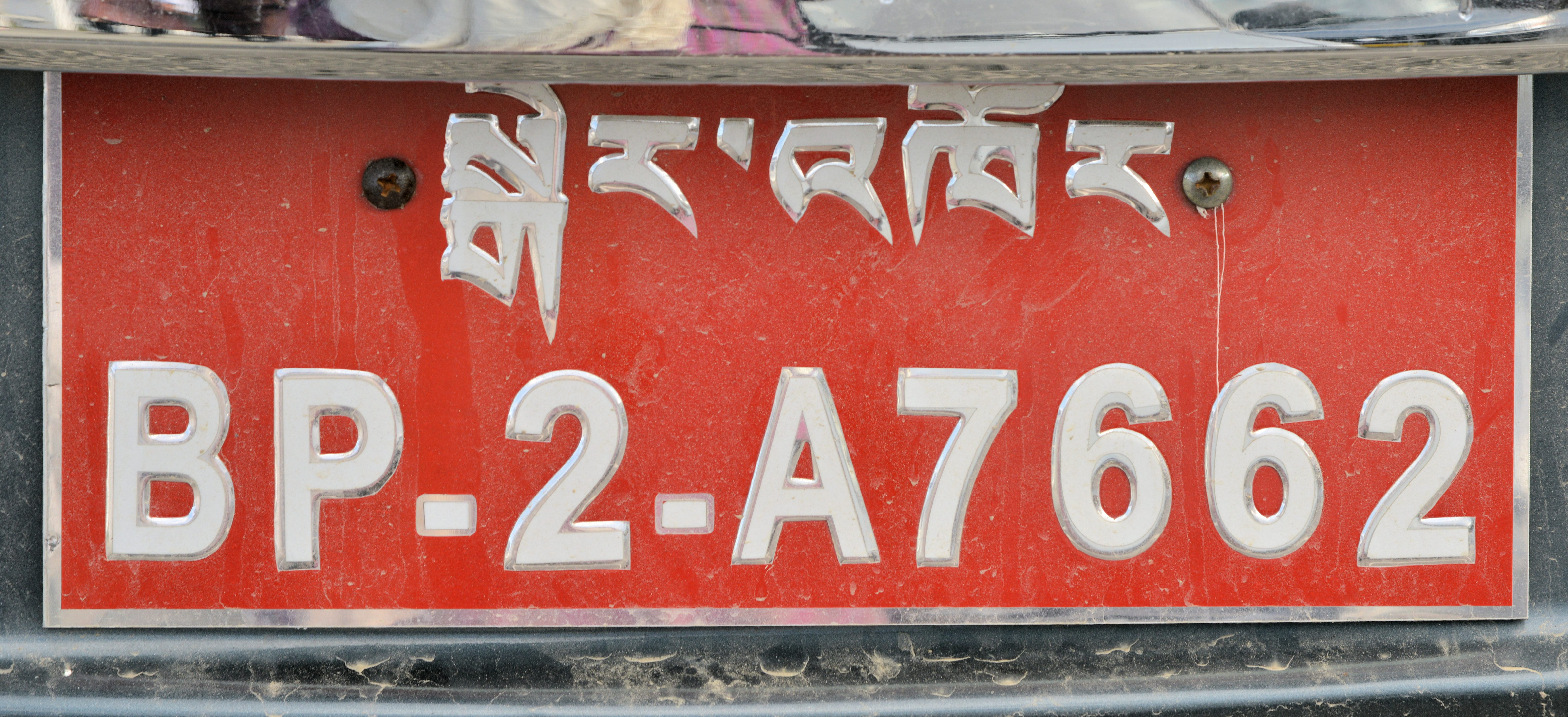 Example of Bhutan private vehicle licence plate